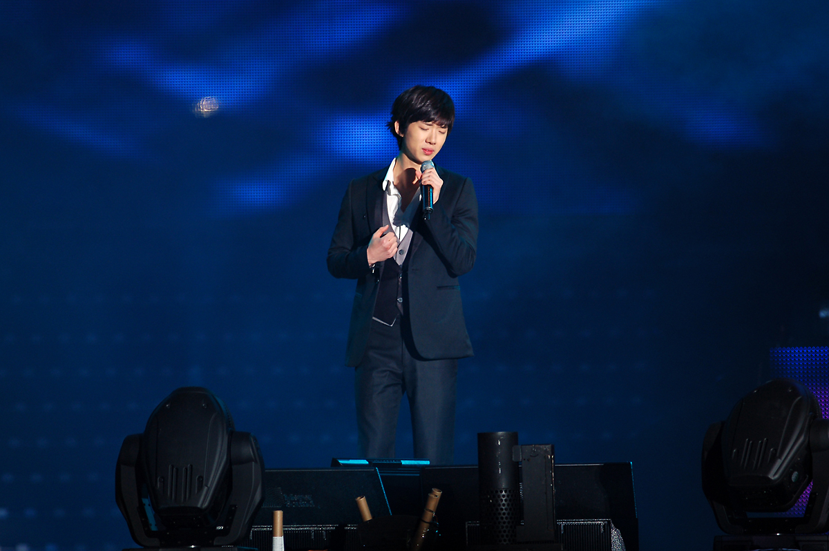 2AM at the 2008 Korea Food Expo opening ceremony